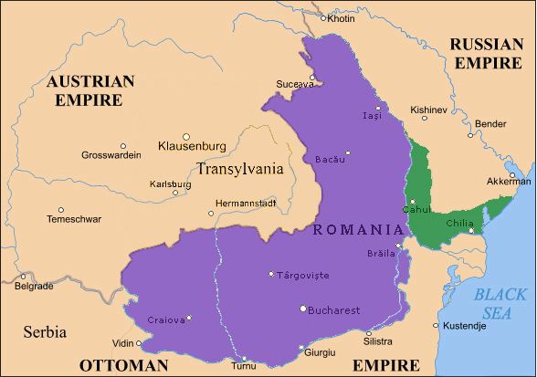 Romania's lost territory: 1878